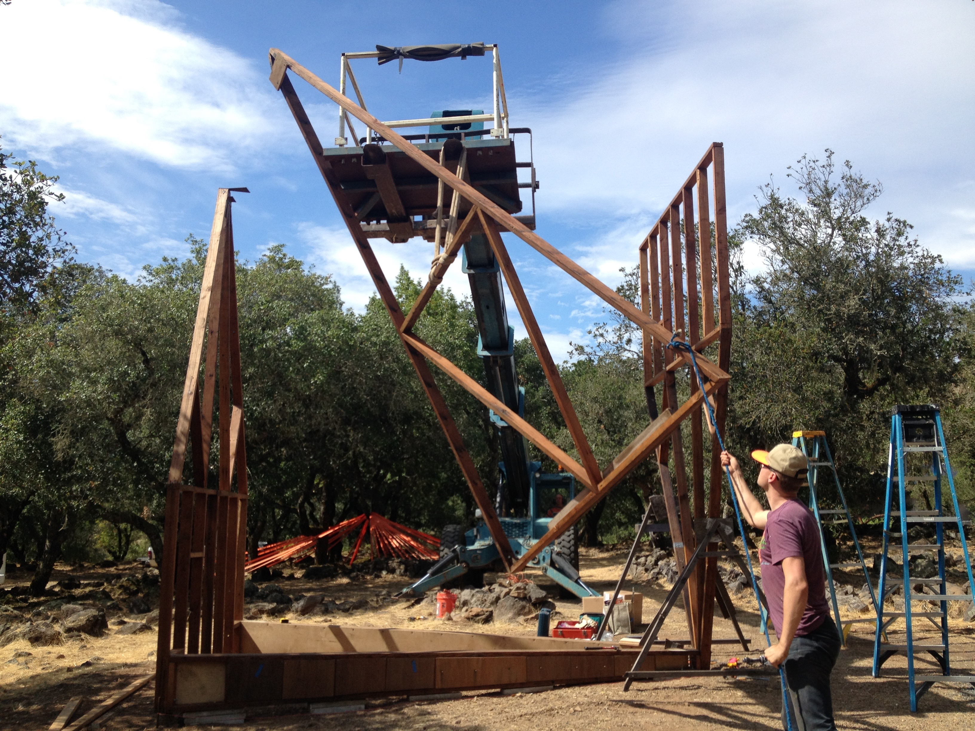 Installing "This Side Up, Handle With Care" at Paradise Ridge Winery, 2015.